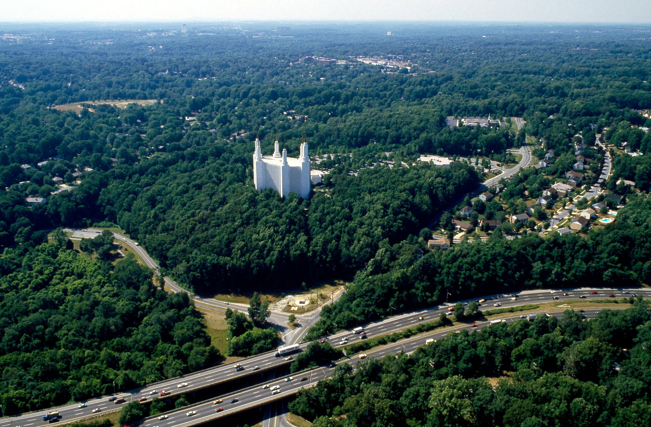 Aerial view of the Washington D.C. Temple of The Church of Jesus Christ of Latter-day Saints (Mormon church).